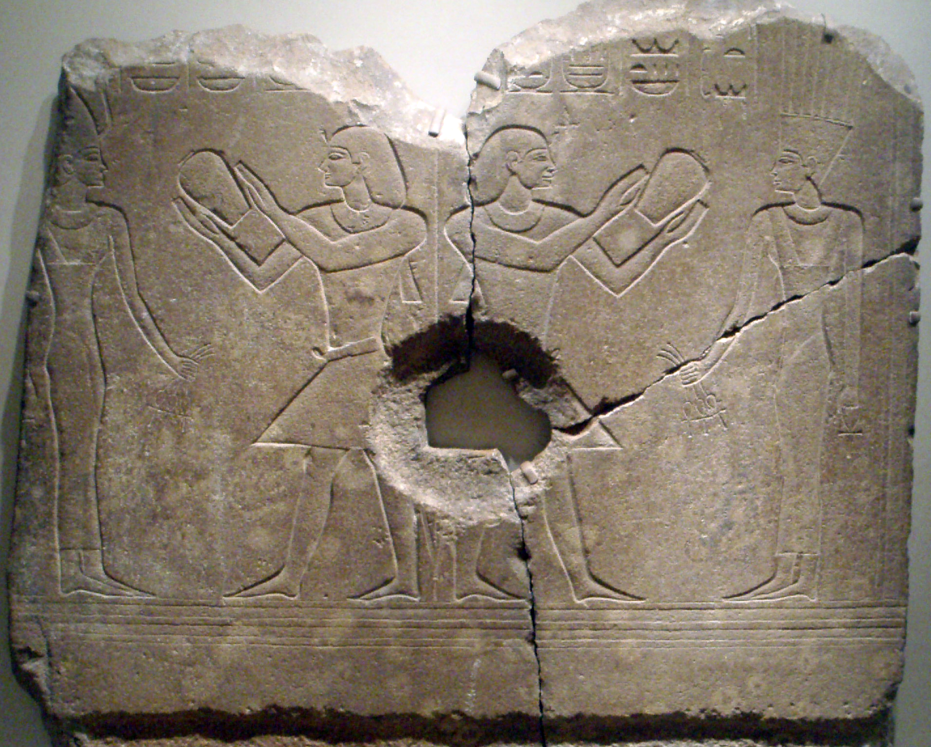 Dual sets of reliefs depicting pharaoh Sobekhotep III. Hole in the center was drilled into the relief in order to use it as a grinding stone long after its original construction.